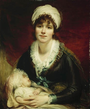 Anne Phyllis Beechey nee Jessop - artist not stated - she and her husband were painters - she died in 1833